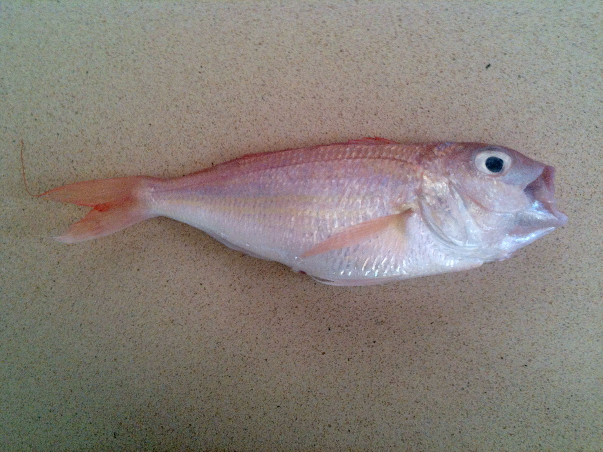 Nemipterus randalli - caught in israel.